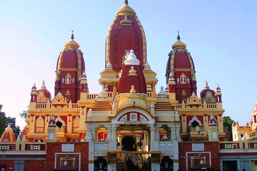 This is Birla Mandir or Lakshmi Narayana Temple in New Delhi. This snap was taken by self while visiting the temple.